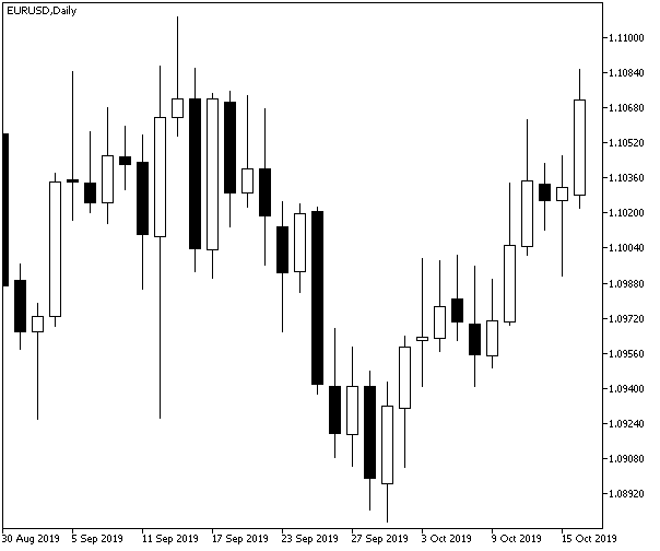 This file represents an example of a candlestick chart (Japanese candles chart). It depicts the EUR/USD currency pair (euro vs. US dollar) with each candle showing open, high, low, and close for one day each. The screenshot was captured in MetaTrader 5 trading platform software.